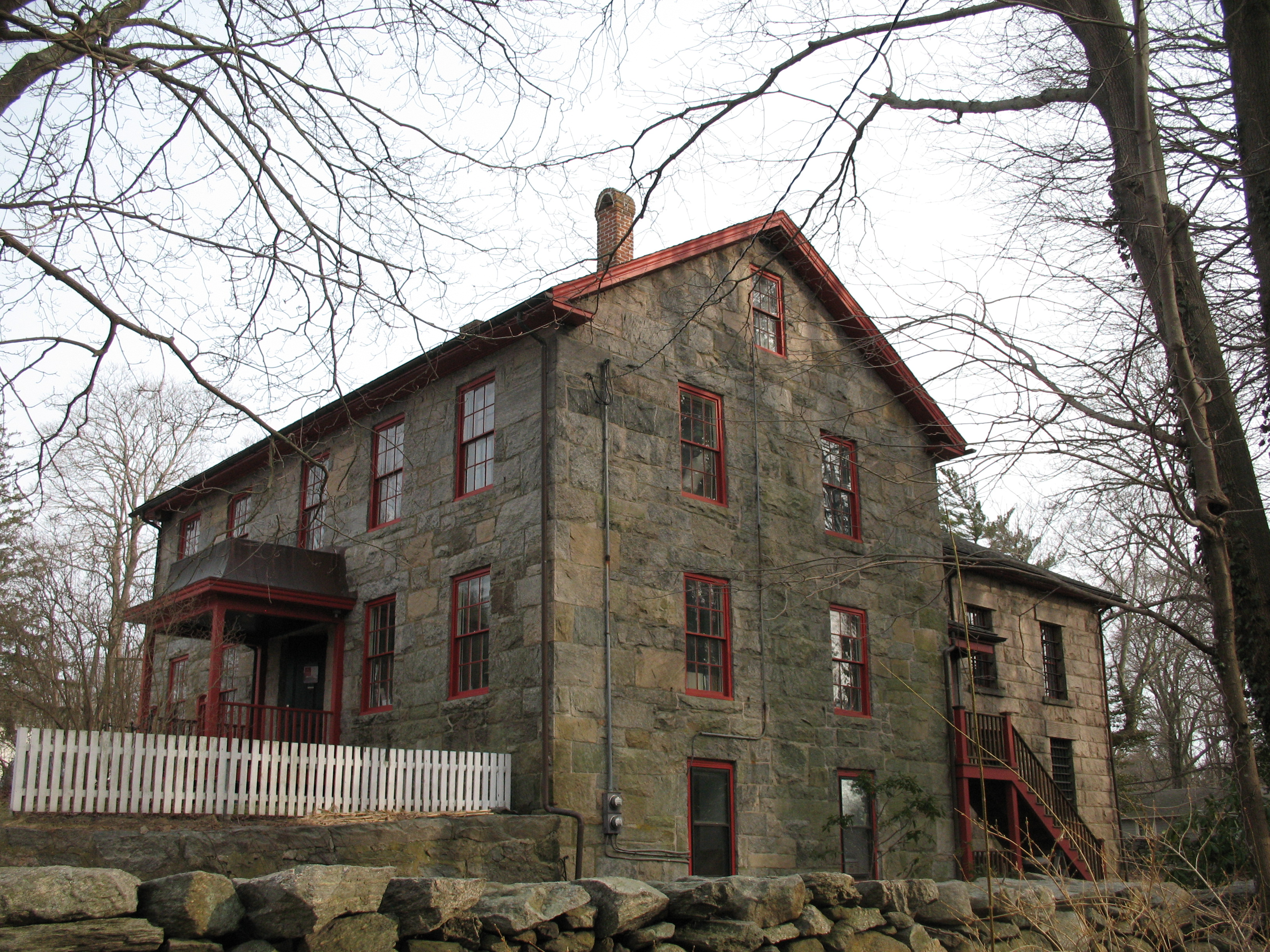 Jail house for Washington County Rhode Island, built in 1858 and replacing a wooden structure built in 1792. It housed prisoners awaiting trial until 1956. It has been the home to the Pettaquamscutt Historical Society (today the South County History Center) since 1958.